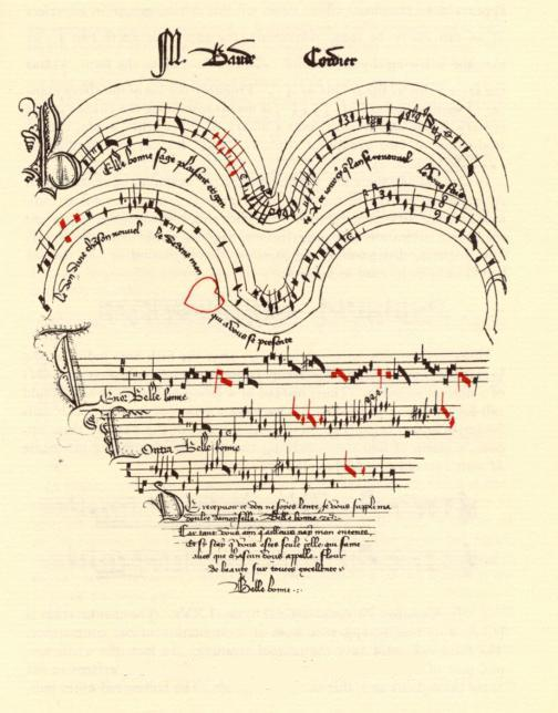 Score of Baude Cordier's chanson "Belle, bonne, sage," from The Chantilly Manuscript, Musée Condé 564. The manuscript is one of the classic examples of ars subtilior, which requires red notes, or "coloration" to indicate changes in note lengths from their normally written values. This chanson, a dedicatory piece on the love of a lady and a lord written in the shape of a heart, opens the corpus. Note the heart of notes within the larger heart.